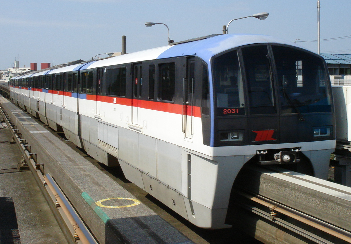 Tokyo Monorail 2000 series set 2031 at Showajima Station